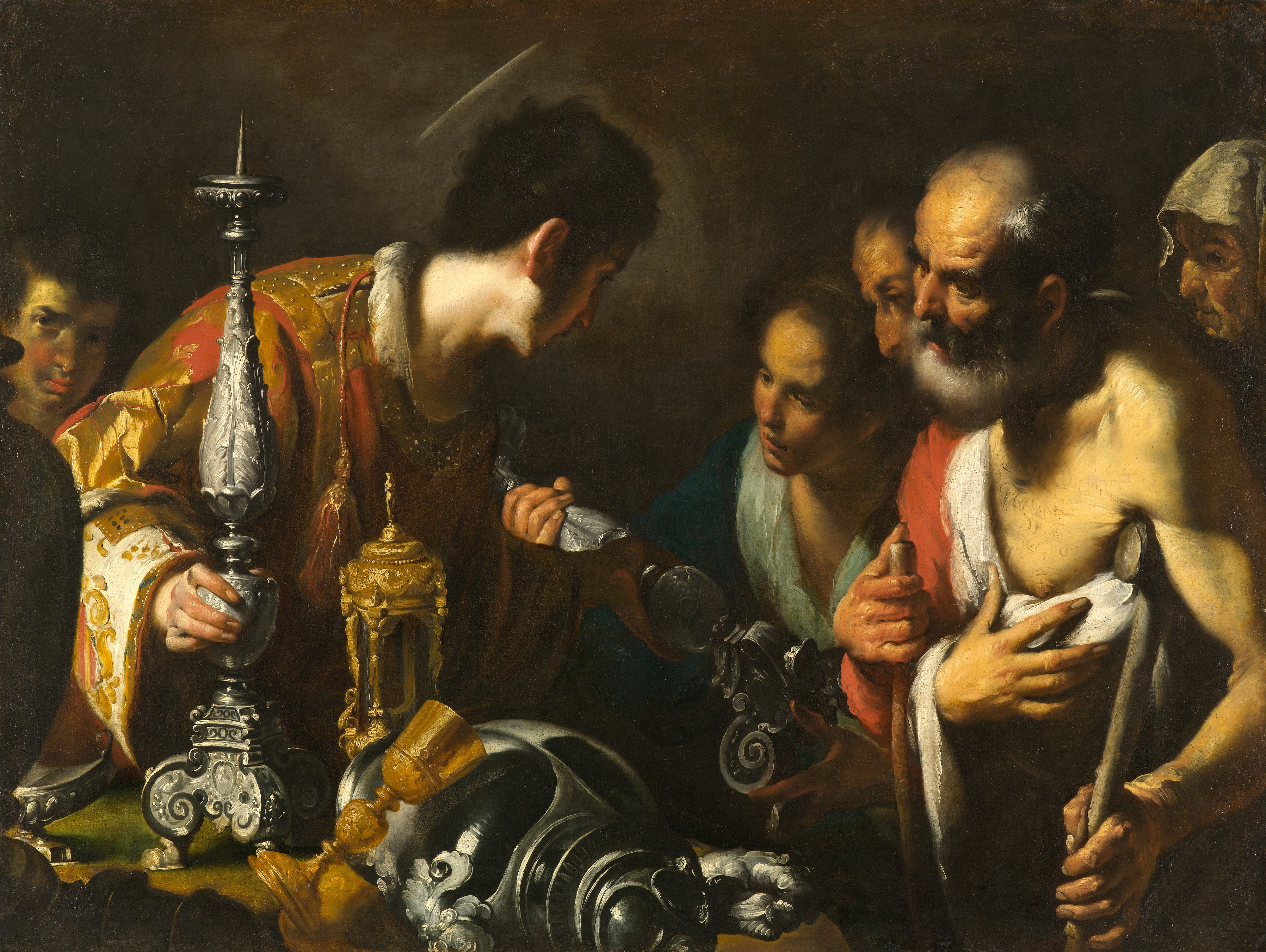 St. Lawrence Distributing the Treasures of the Church. Bernardo Strozzi. circa 1625. Oil on canvas. w157.5 x h118.1 cm. North Carolina Museum of Art via Google Cultural Institute